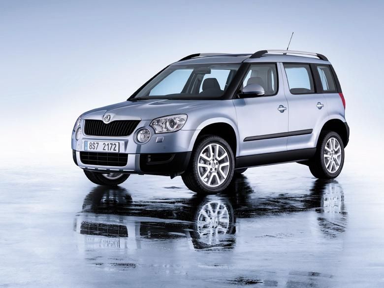 Skoda-Yeti-exterior-front